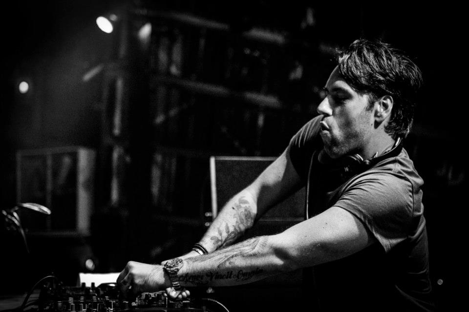 Photograph of Sebastian Ingrosso playing live at Ushuaia Ibiza